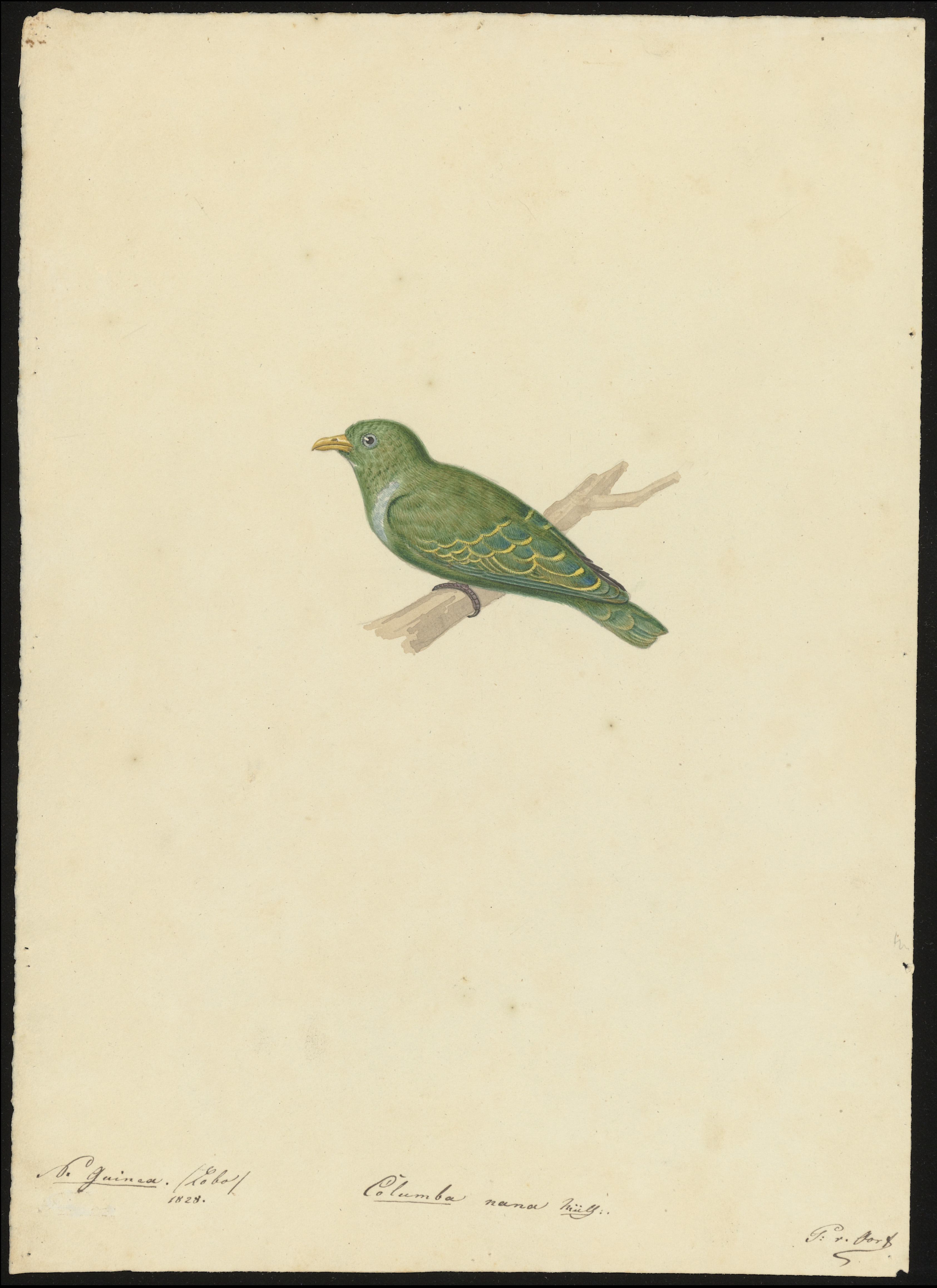 Drawing of a bird